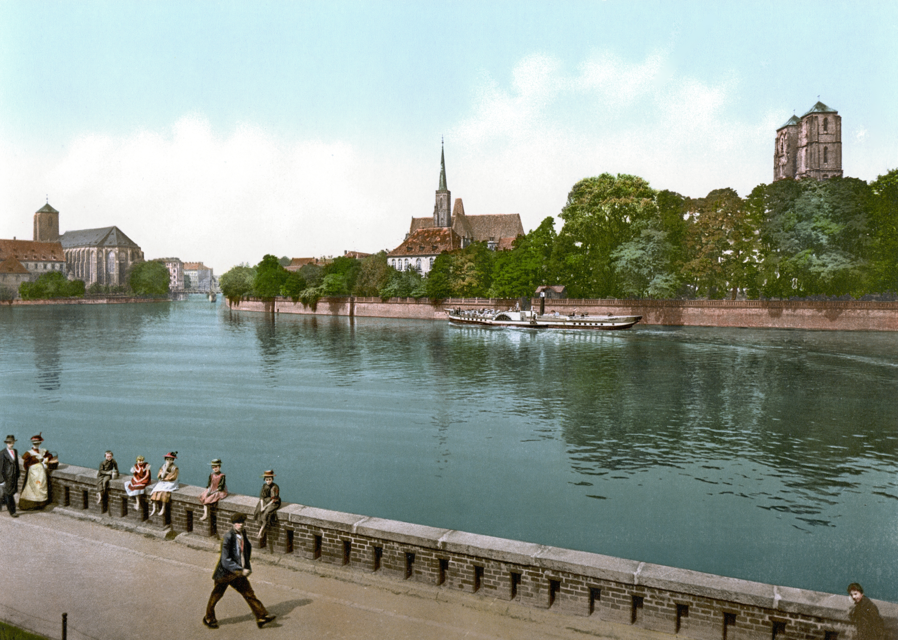 Oder River and Cathedral Island in Breslau, Germany (now Wrocław, Poland) ca. 1890-1900.